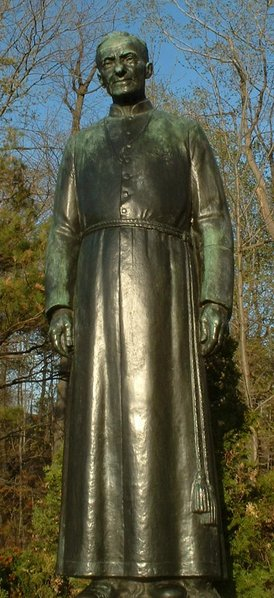 Statue of Brother André which stands near St. Joseph's Oratory, Montréal, Québec.